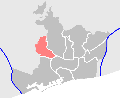 Locator maps of districts/ neighbourhoods in Barcelona: Map - Barcelona - Les Corts.PNG